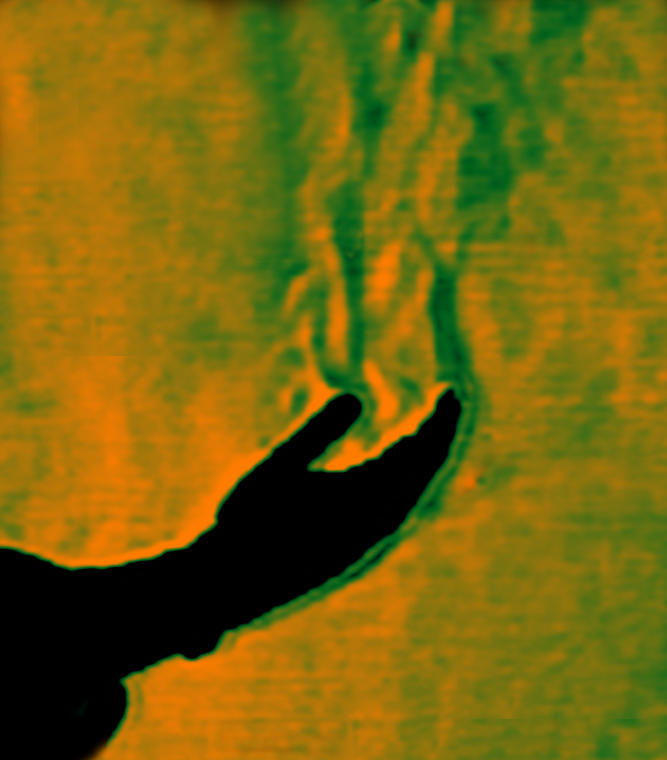 This color Schlieren image reveals thermal convection from a human hand (in silhouette) to the surrounding still atmosphere. Photographed by Dr. Gary Settles using schlieren equipment provided by Floviz Inc.